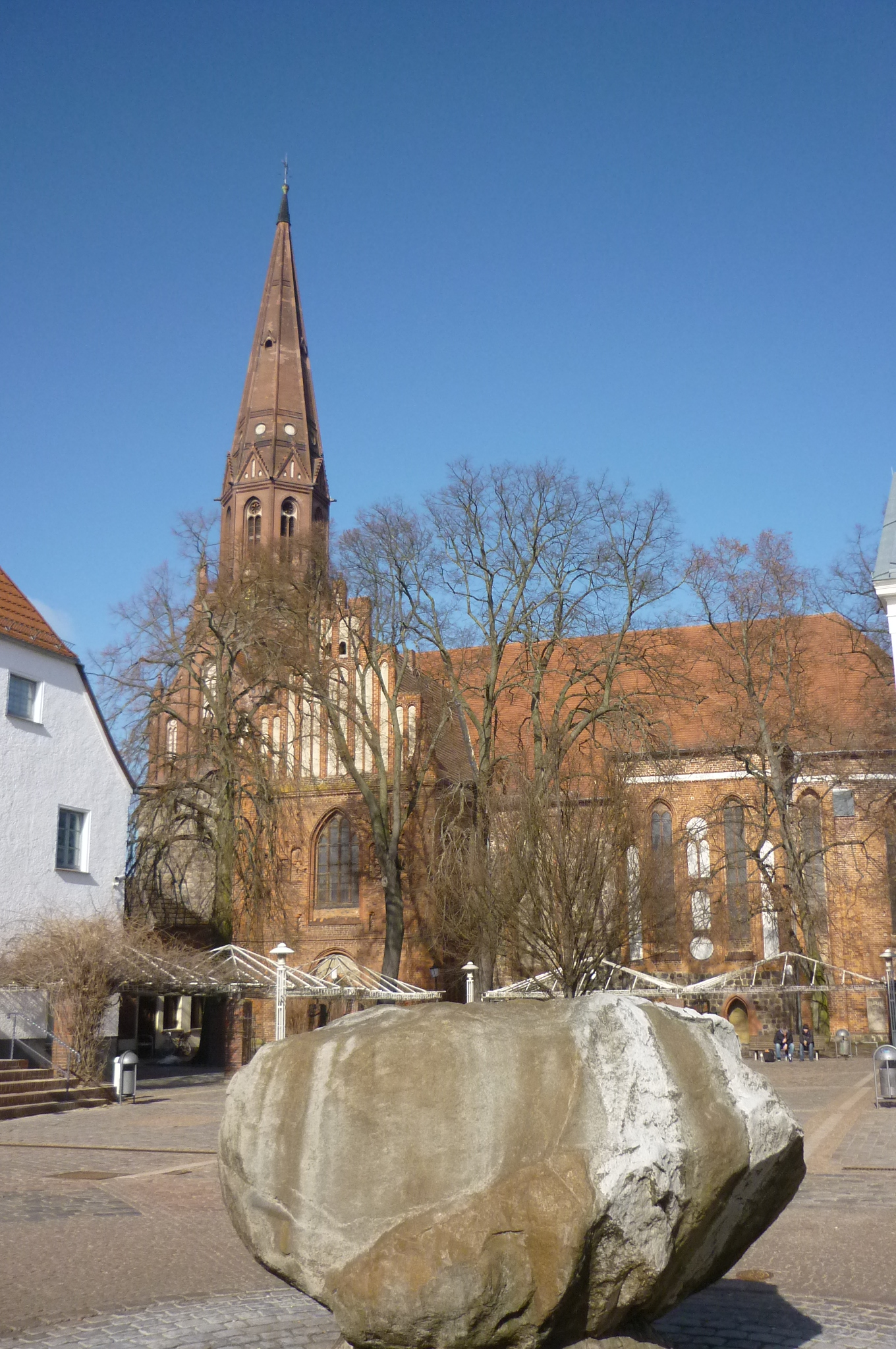 St. Nikolai (Pritzwalk)